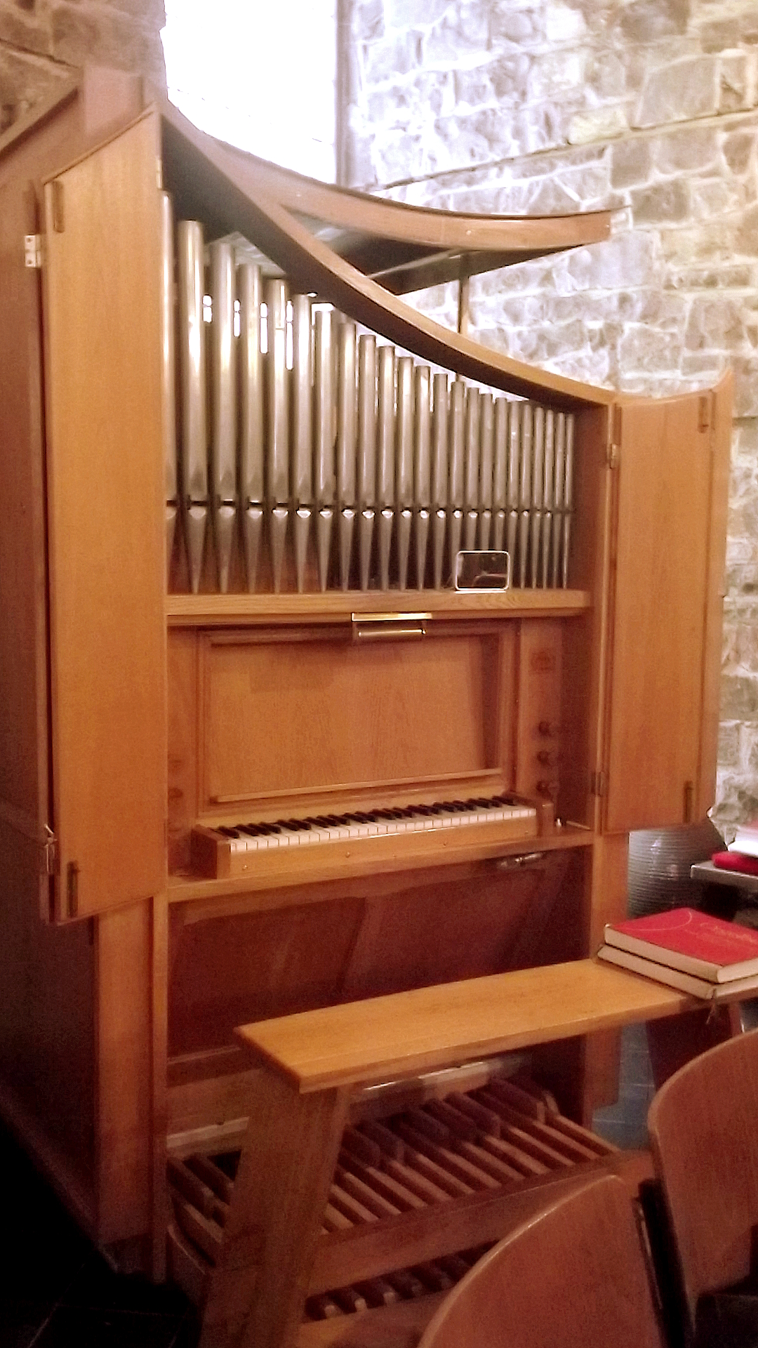 Interior of the protestant church in Türkismühle, Saarland, Germany